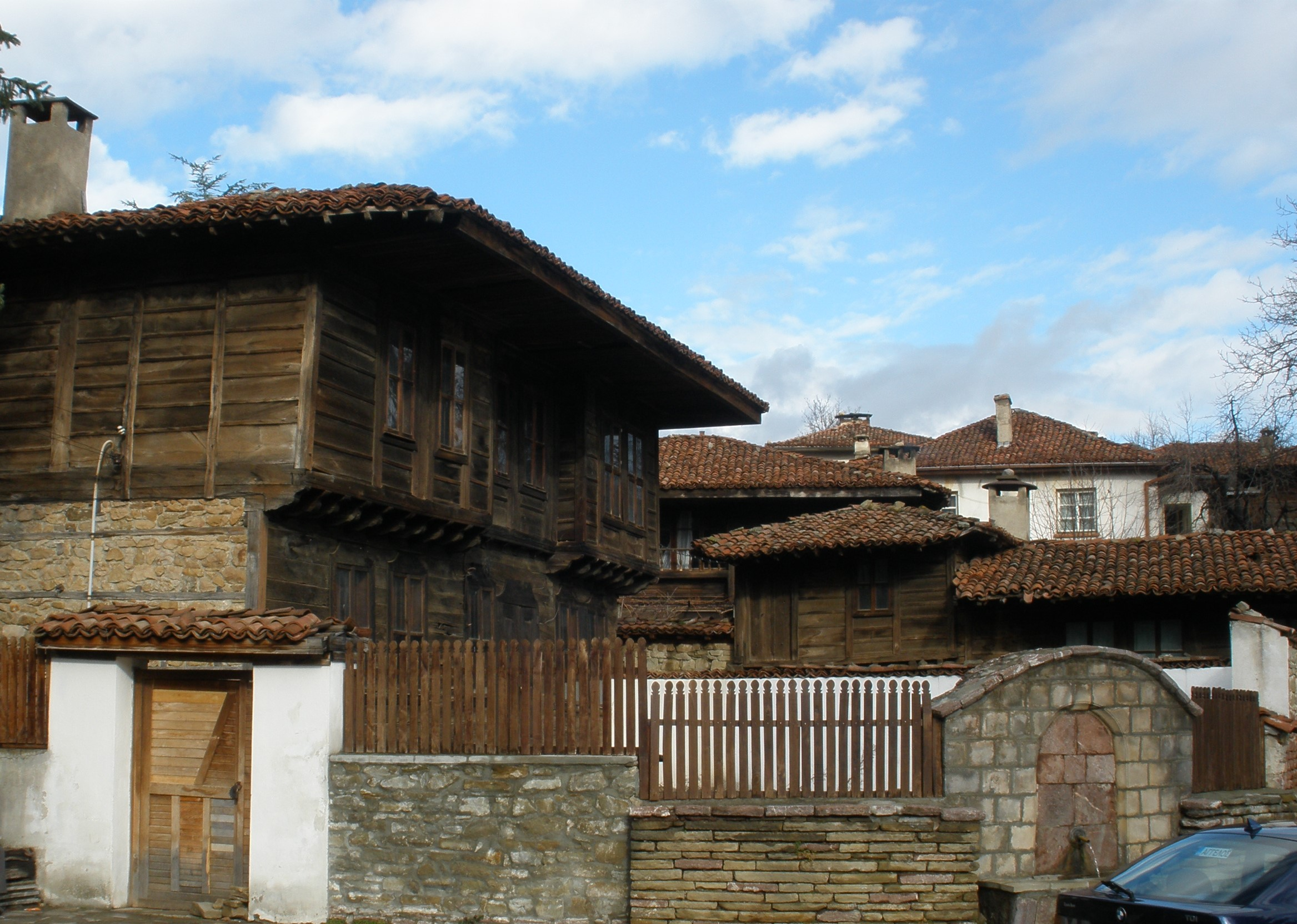 Old houses in Kotel, Bulgaria - Bulgarian national Revival Architecture